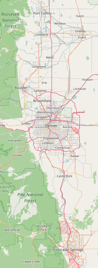 Open Street Map of Fort Collins, Boulder, Denver, and Colorado Springs